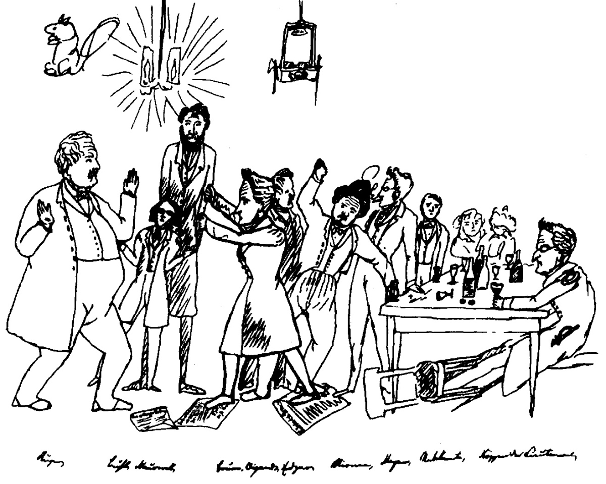 Die Freien was a 19th-century circle of political philosophers in Germany, gathering for informal discussion over a period of a few years. From left: Arnold Ruge, Ludwig Bühl, Carl Nauwerck, Bruno Bauer, Otto Wigand, Edgar Bauer, Max Stirner, Eduard Meyen, three unknown persons, Karl Friedrich Köppen.[1] This sketch was drawn by Engels and shows Max Stirner among others.